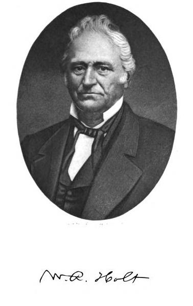 Portrait of Dr. William Rainey Holt, "physician, planter, promoter and long president of the North Carolina State Agricultural Society," lived in Lexington, North Carolina. He was the son of Michael Holt and Rachel (Rainey) Holt, and was born In Alamance County, North Carolina, October 30, 1798.